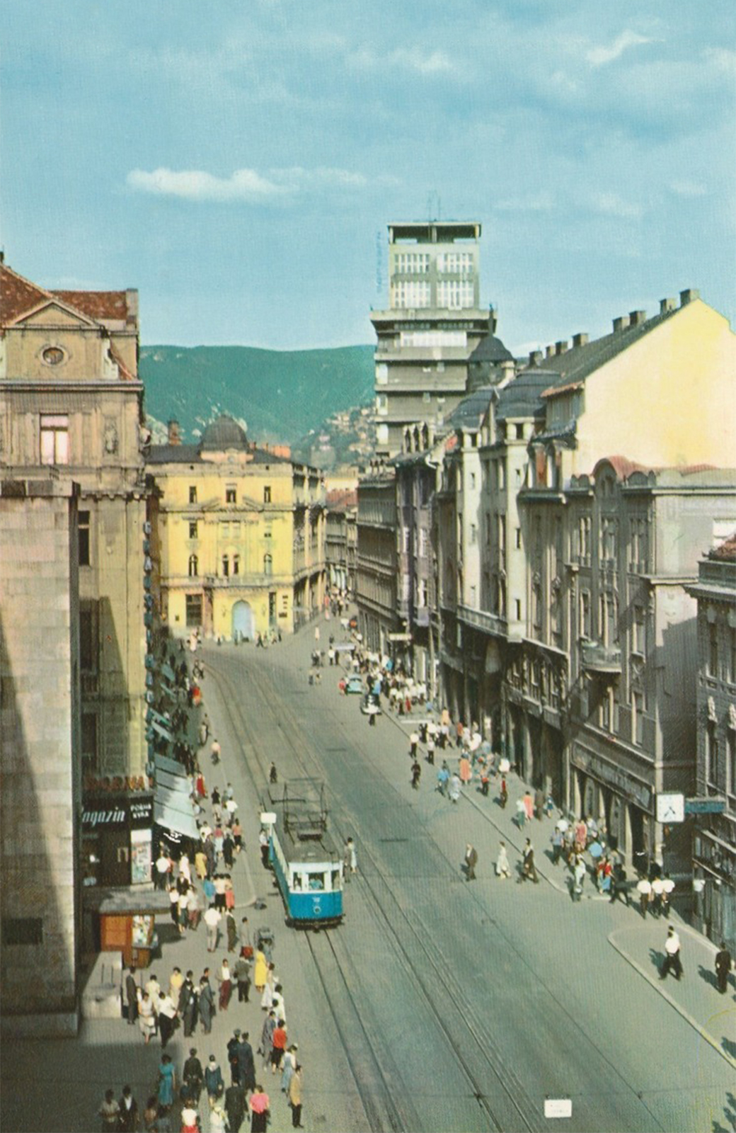 Maršala Tita Street in the mid-fifties